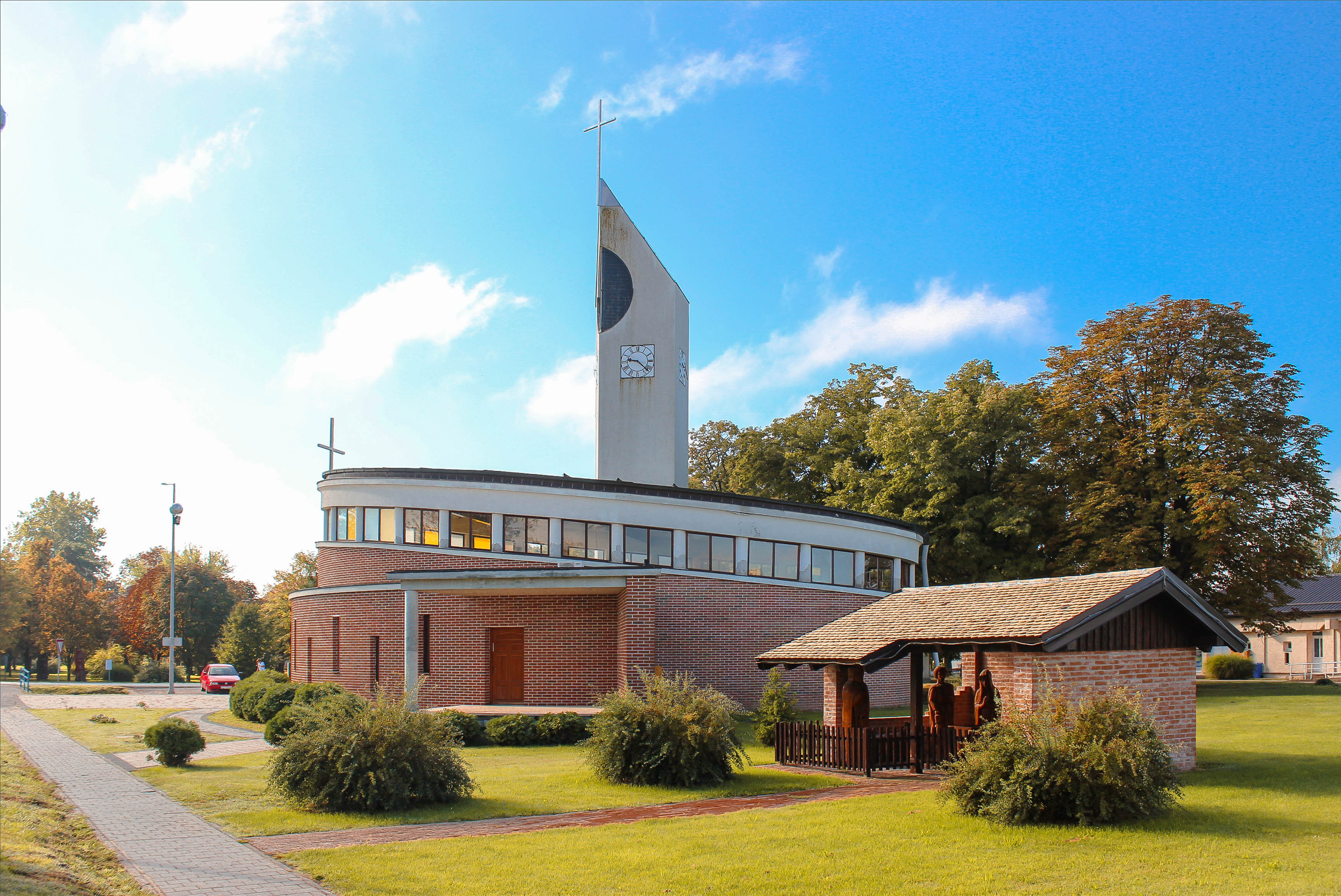 Church in Ernestinovo